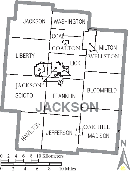 Map of Jackson County, Ohio, United States with township and municipal boundaries